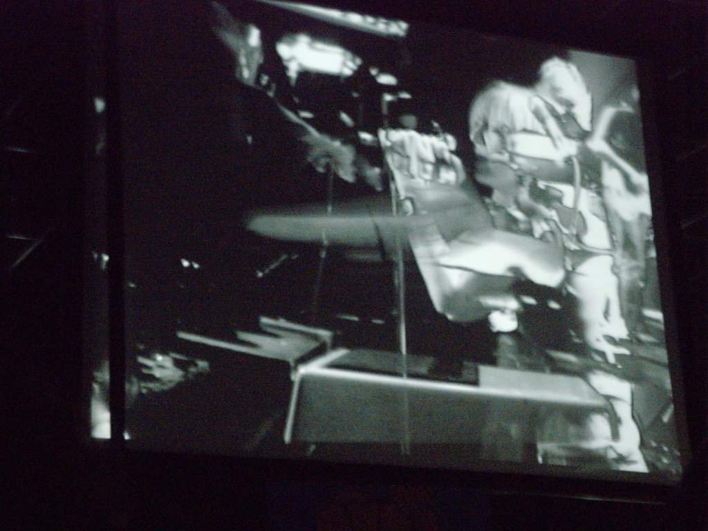 Portishead live